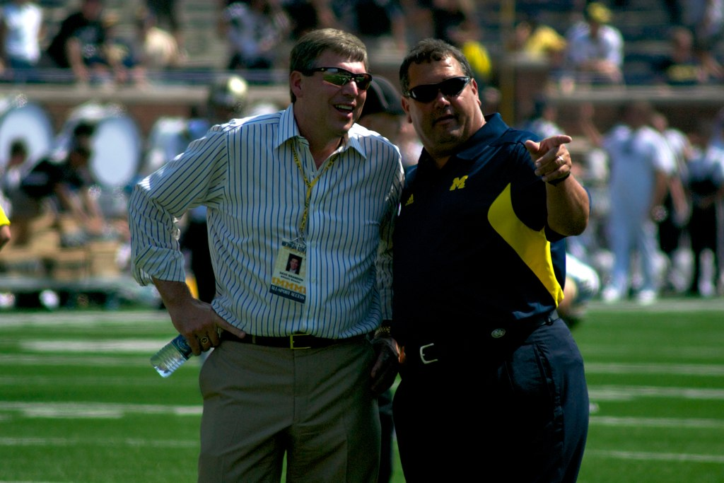 Dave Brandon (left) and Brady Hoke.